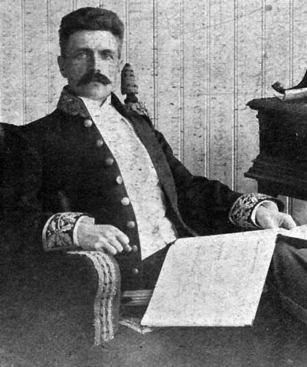 Christian Leonard Tenow